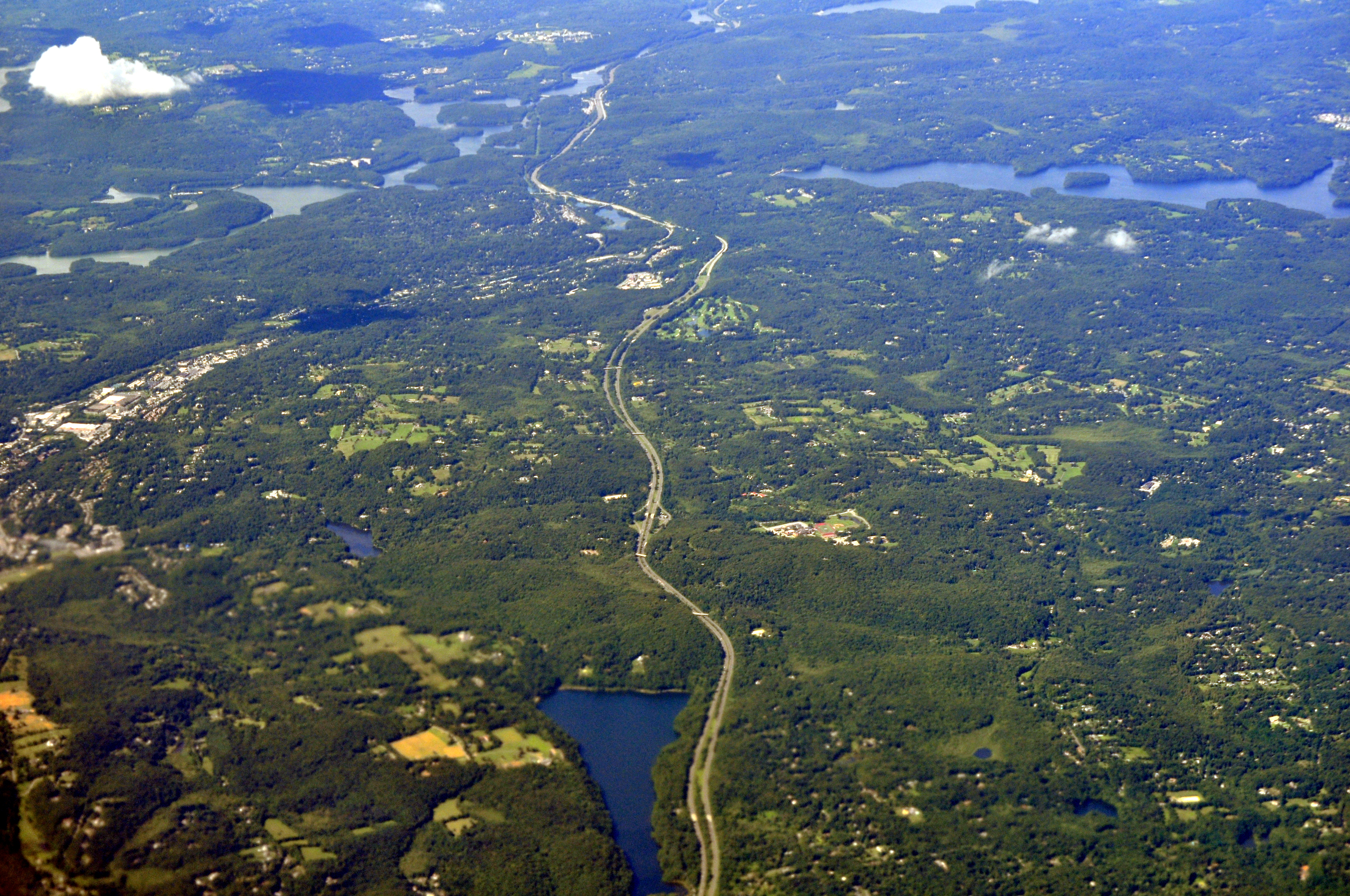 Aerial view of Muscoot Reservoir and Cross River Reservoir, Westchester County, New York.